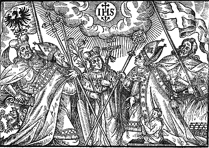 Catholic Patrons of Poland from Missae Propriae Patronorum et Festorum Regi Poloniae. Ad normam Missalis Romani accommodatae.